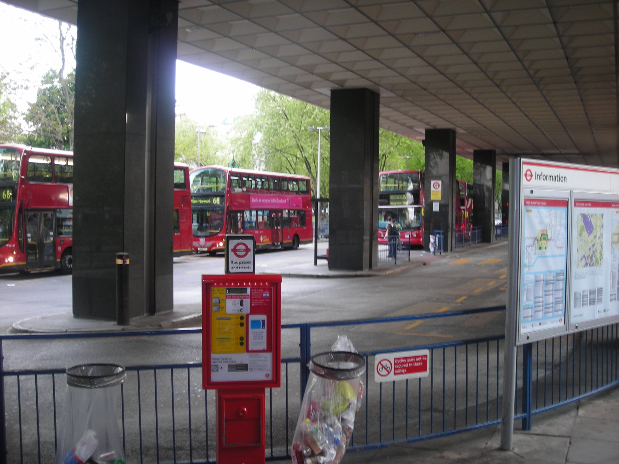 Euston Bus Station May 2009